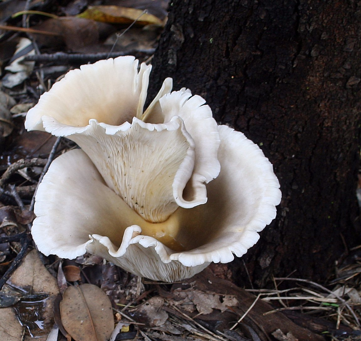 Omphalotus nidiformis on Hakea salicifolia stump, Binnamittalong reserve, Bexley NSW